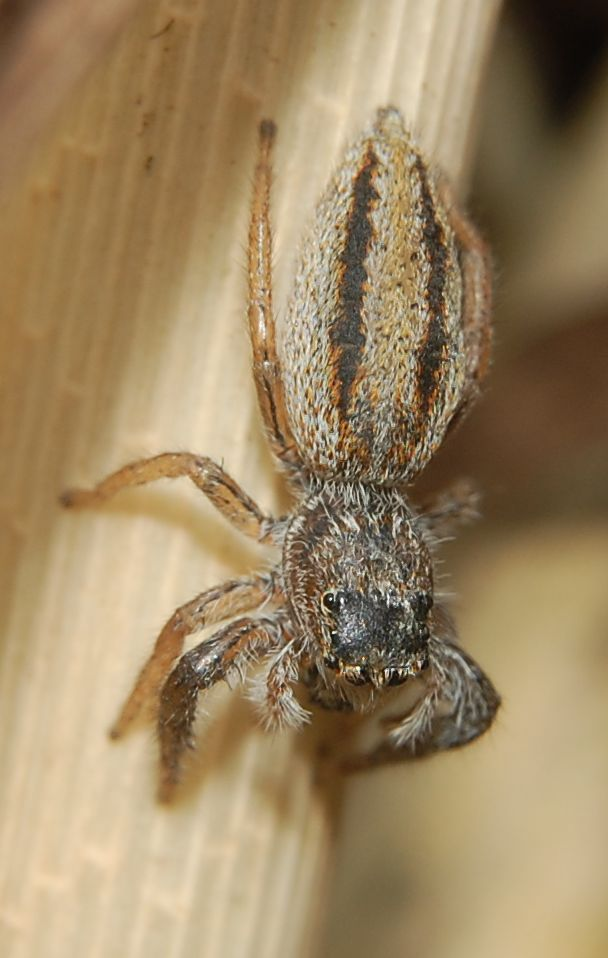 Marpissa radiata, female. Berlin-Spandau, Germany det. R. Altenkamp